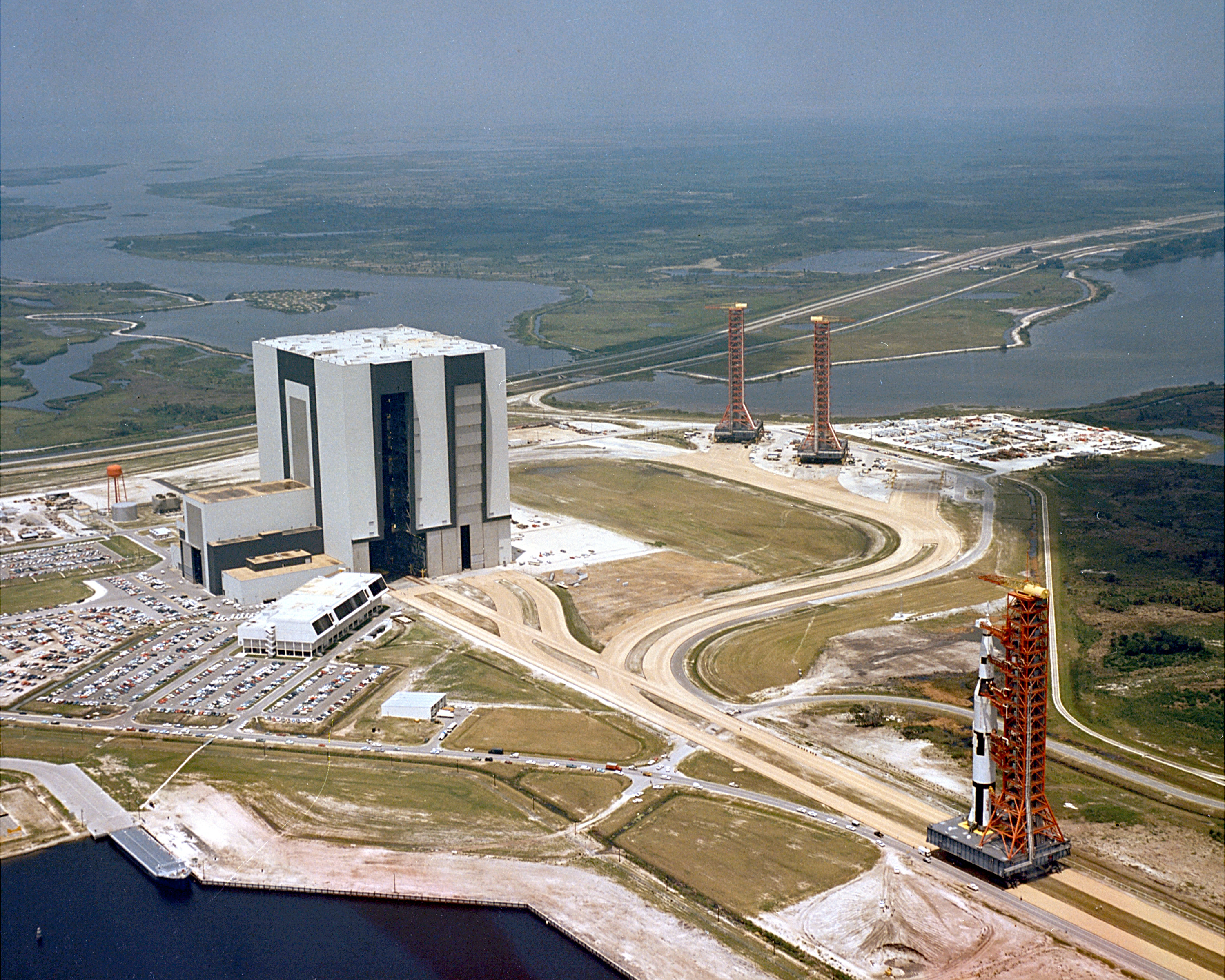 An aerial view of the Apollo Saturn V Facilities Test vehicle rolling out of the Vehicle Assembly Building (VAB) and heading to Launch Complex 39A. This test vehicle, designated the Apollo Saturn 500F, will never make the journey to the moon. However, it is being used to verify launch facilities, train launch crews, and develop test and checkout procedures.